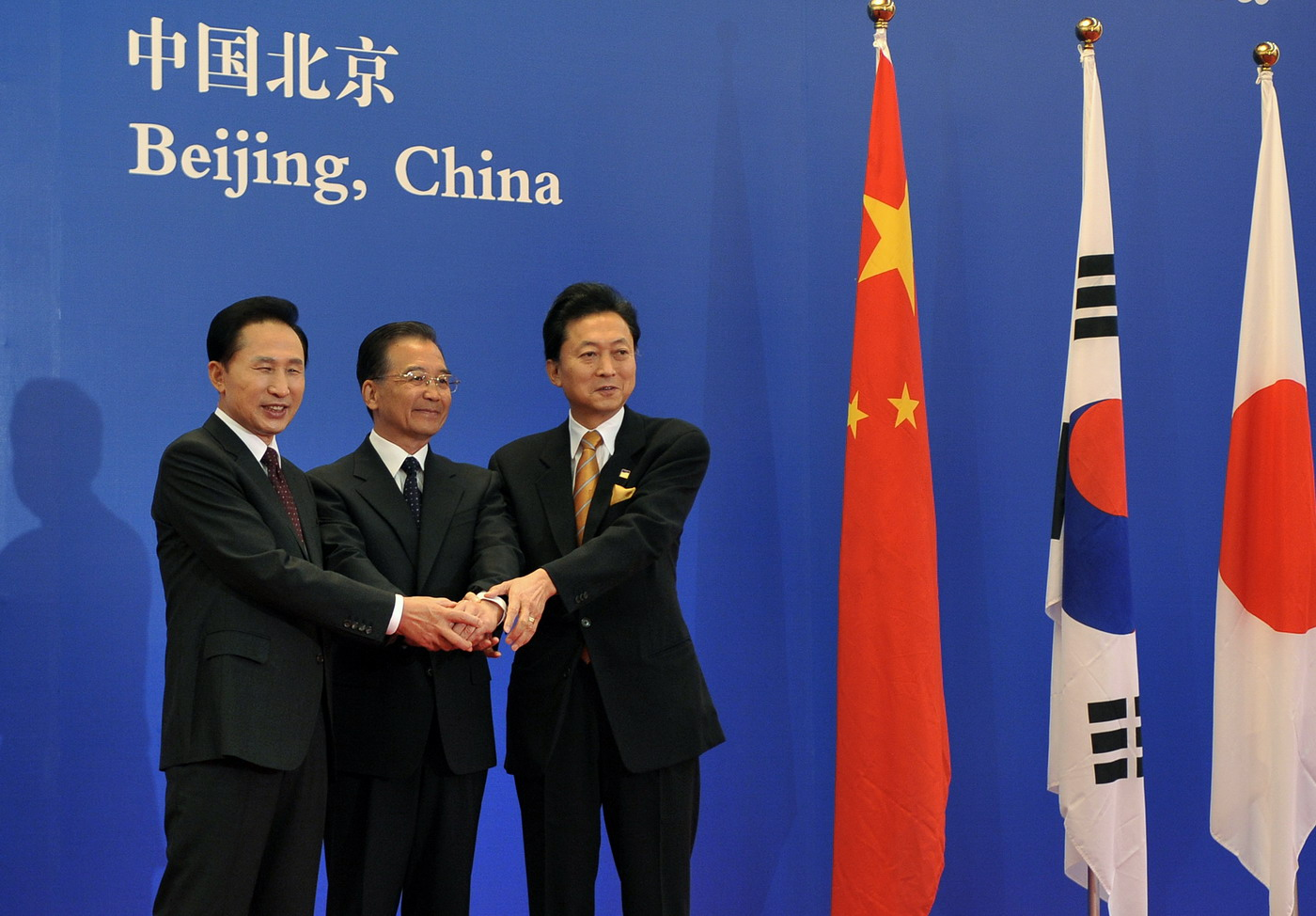 Korea-Japan-China Trilateral Summit meeting in October 2009